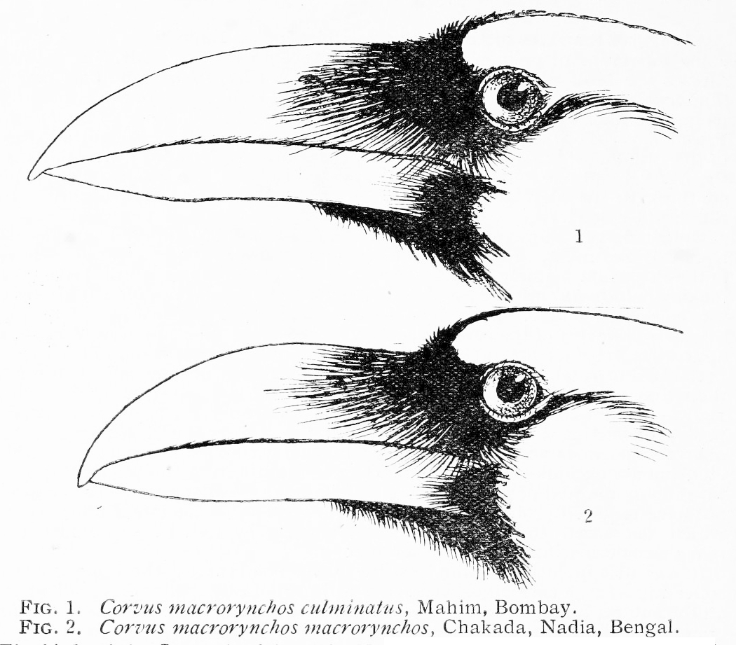 Bill of Corvus culminatus compared with Corvus macrorhynchus